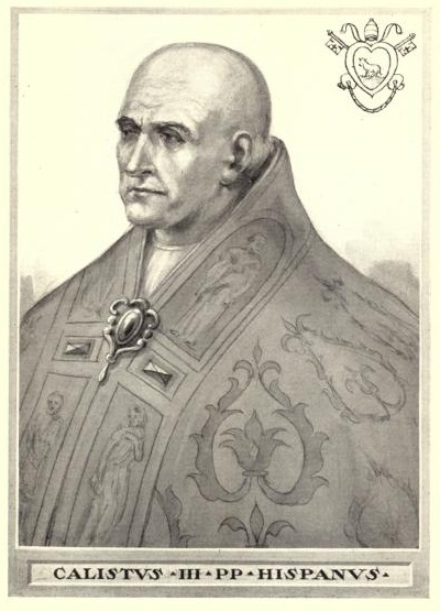 This illustration is from The Lives and Times of the Popes by Chevalier Artaud de Montor, New York: The Catholic Publication Society of America, 1911. It was originally published in 1842.